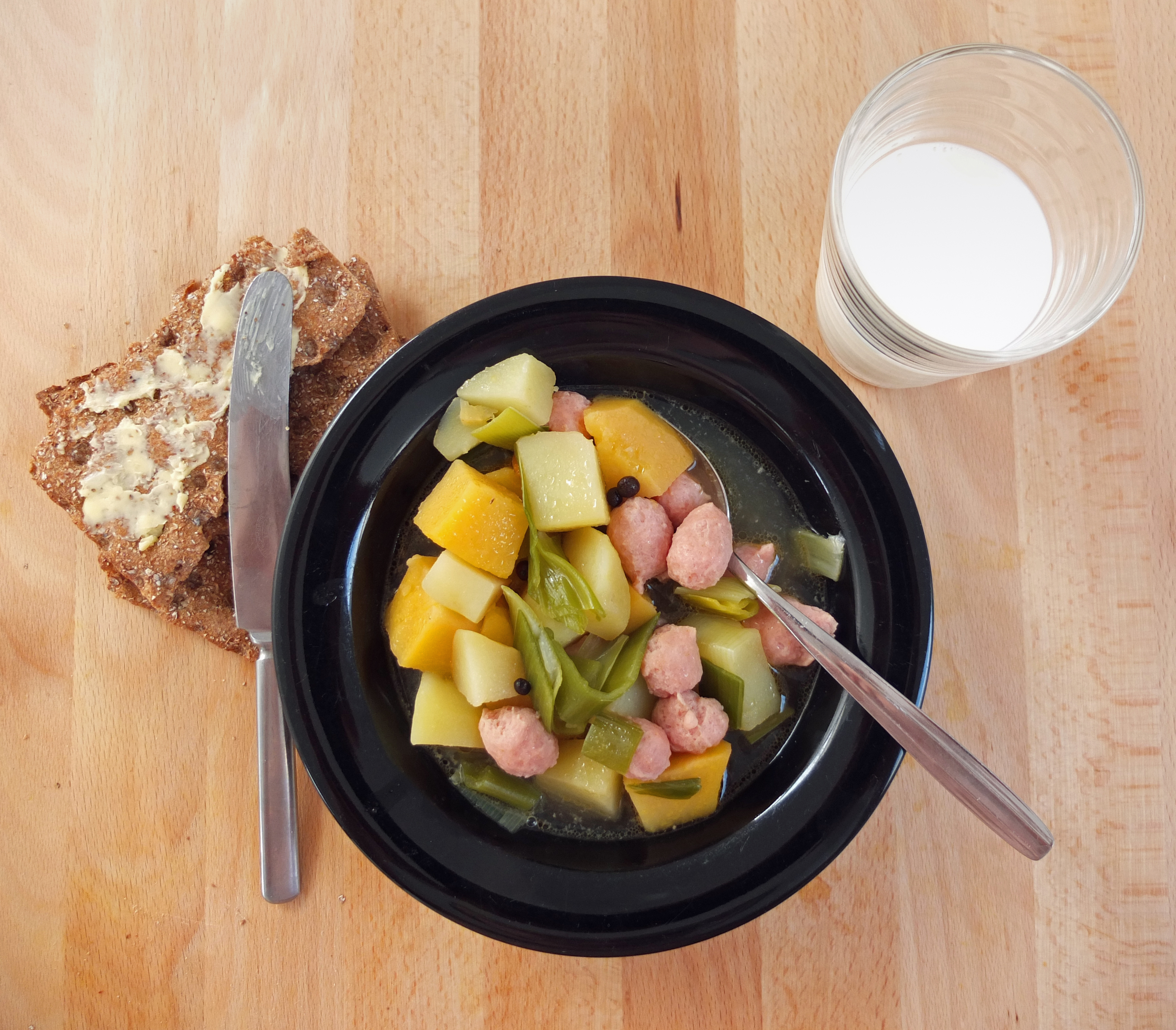 Traditional Finnish dish siskonmakkarakeitto made with fresh sausage (siskonmakkara), potatoes, leek, carrots, and rutabaga.